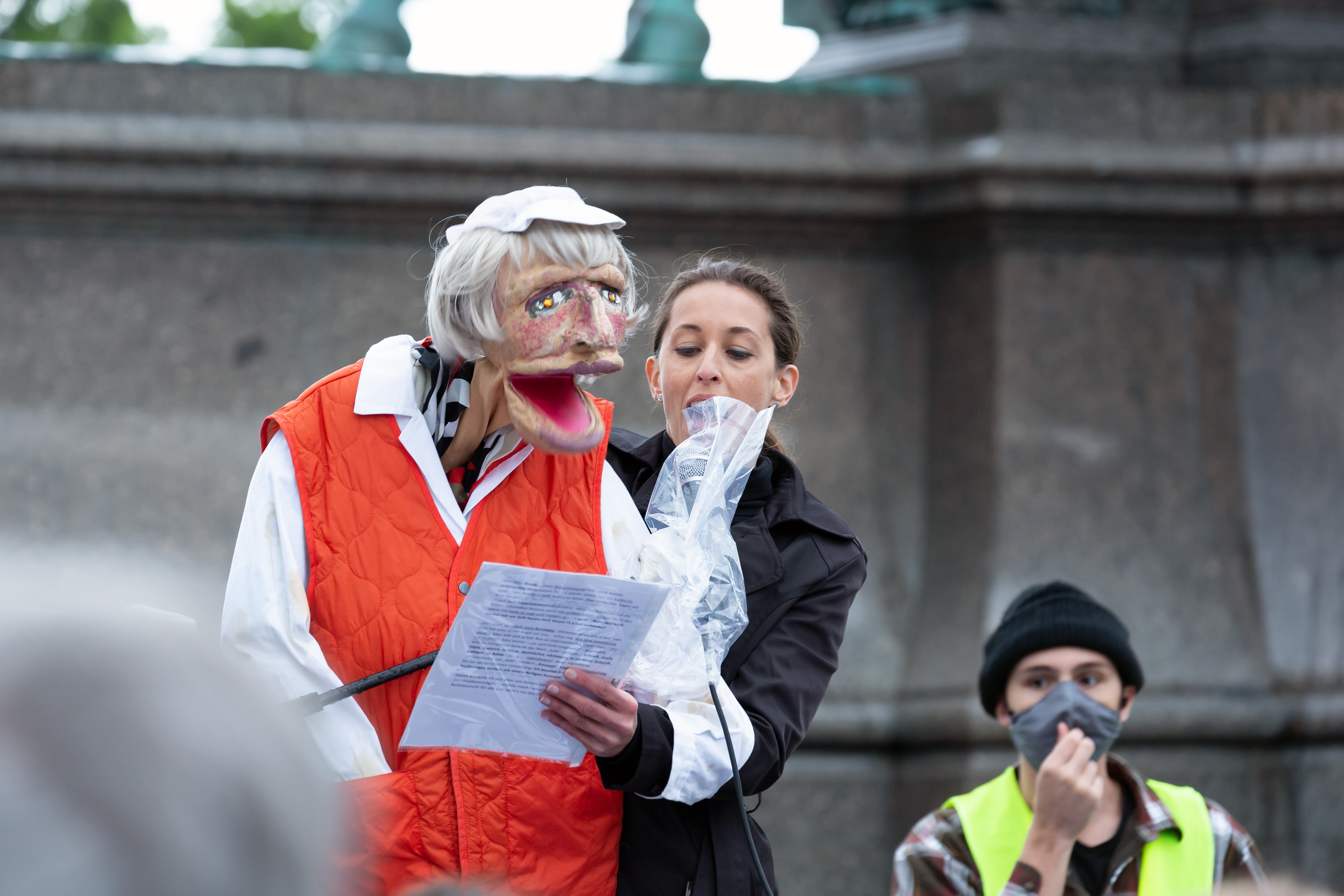 Manuela Linshalm with "Resi Resch" at the 2-Meter-Abstand Demo für Kunst und Kultur #3 (2 meter distance demonstration for art and culture #3) on Maria-Theresien-Platz in Vienna,Austria).